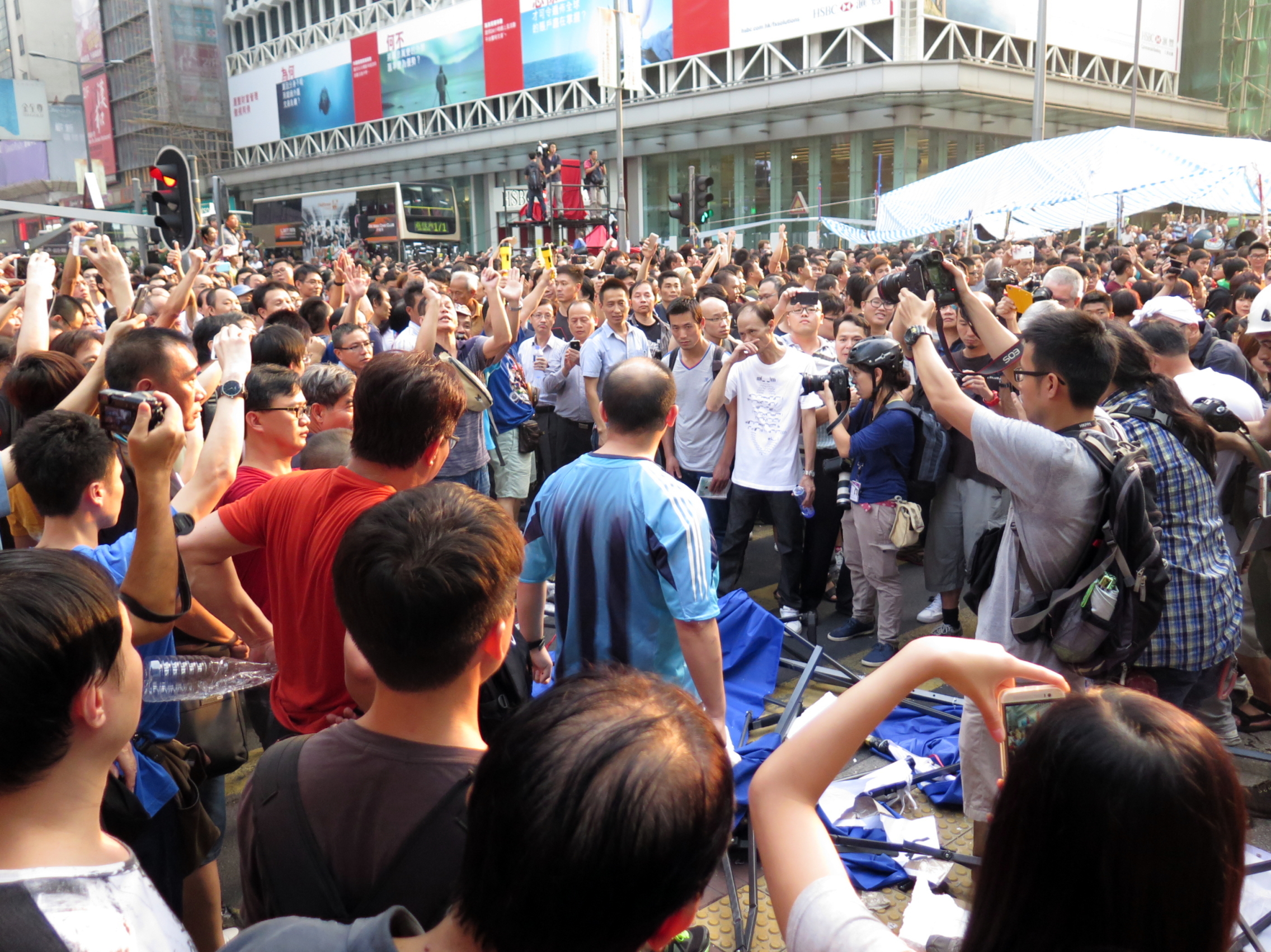 Anti Occupy Central Protesters Destory feel happy